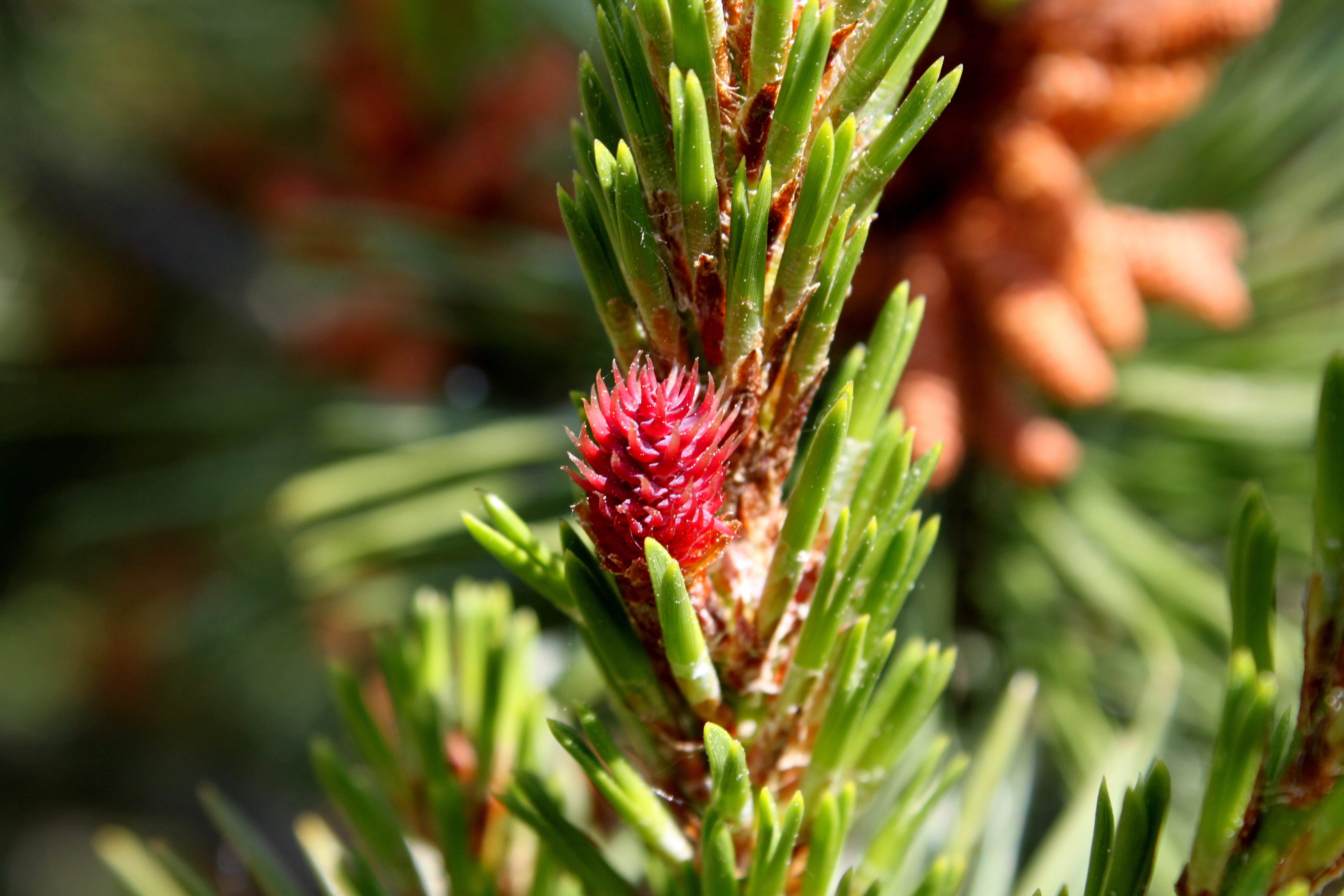 Pinus banksiana female cone in Ostrołęka, Poland